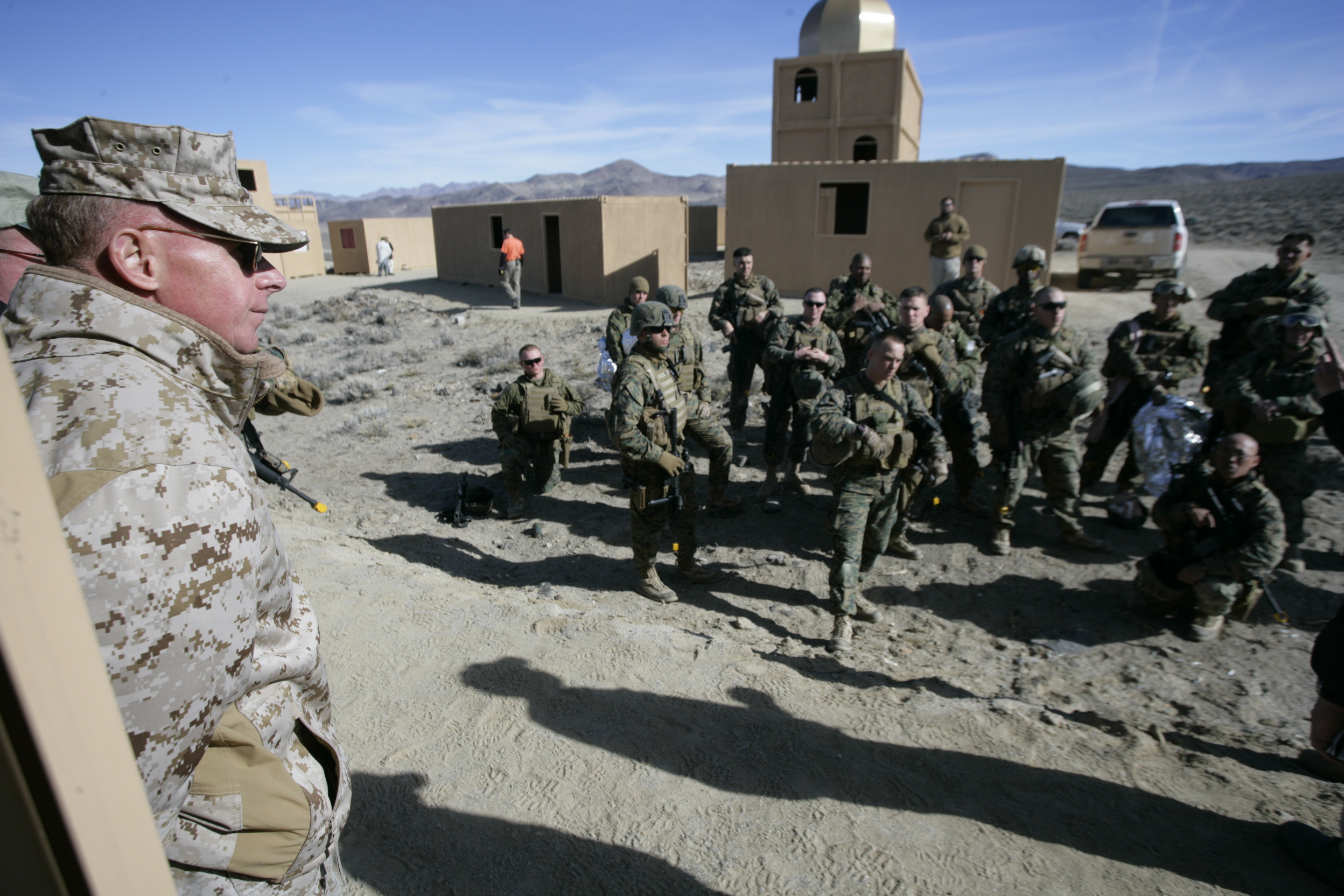 Brig. Gen. Melvin G. Spiese, commanding general of Marine Corps Air Ground Combat Center Twentynine Palms, Calif., observes a debrief conducted by Advisor Training Group instructors after a training scenario Feb. 9, 2008, in Hawthorne, Nev. Embedded Trainer Teams based out of Okinawa, Japan, and Hawaii are training for an upcoming deployment to Afghanistan where they�ll be tasked with mentoring, training and advising the Afghan National Army to become a self-efficient military force. The teams are in the final phase of the 21-day long pre-deployment evolution dubbed Mountain Viper. (U.S. Marine Corps photo by Cpl. Michael S. Cifuentes)